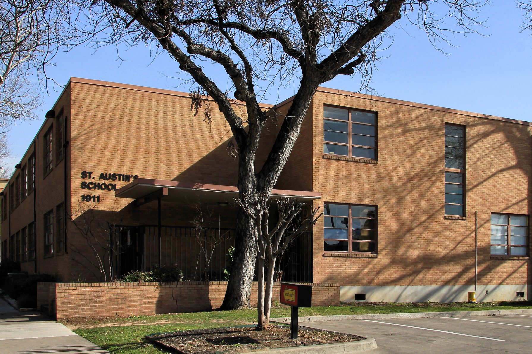 St. Austin Catholic School, Austin, Texas, United States.